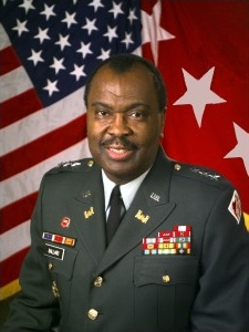 Lieutenant General Joe N. Ballard, Chief of Engineers October 1, 1996–August 2, 2000.